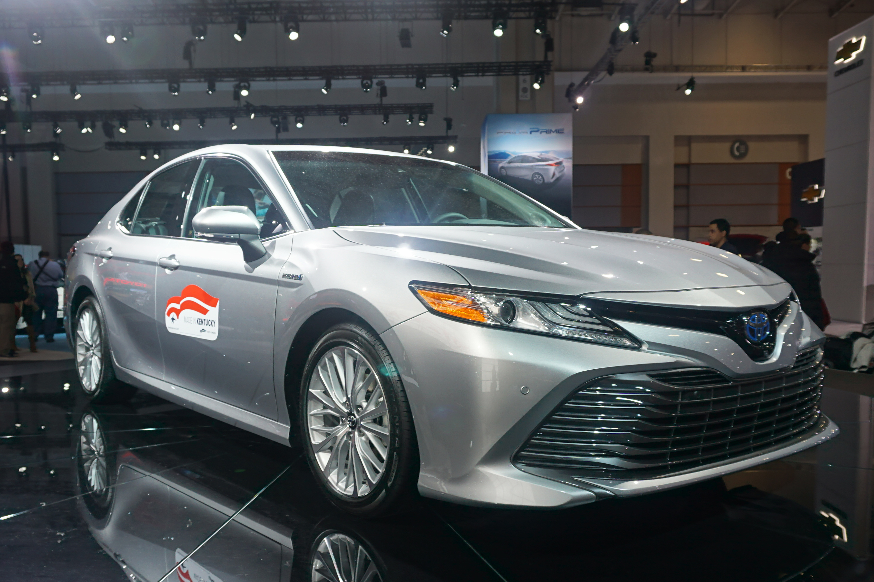 New 2018 Toyota Camry Hybrid (XV70) exhibited at the 2017 Washington Auto Show, DC, US.